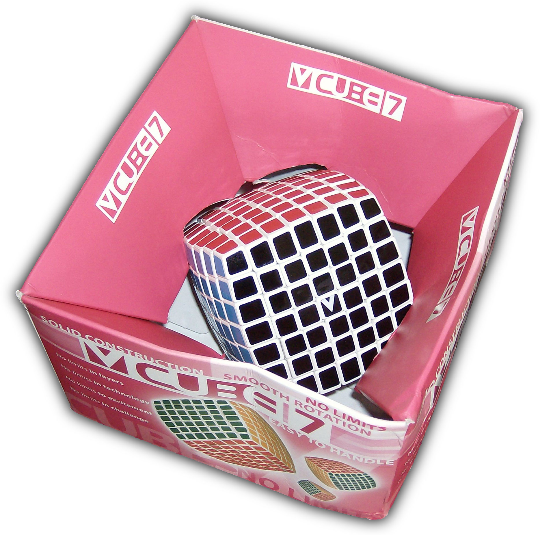 V-Cube 7 in original packaging.